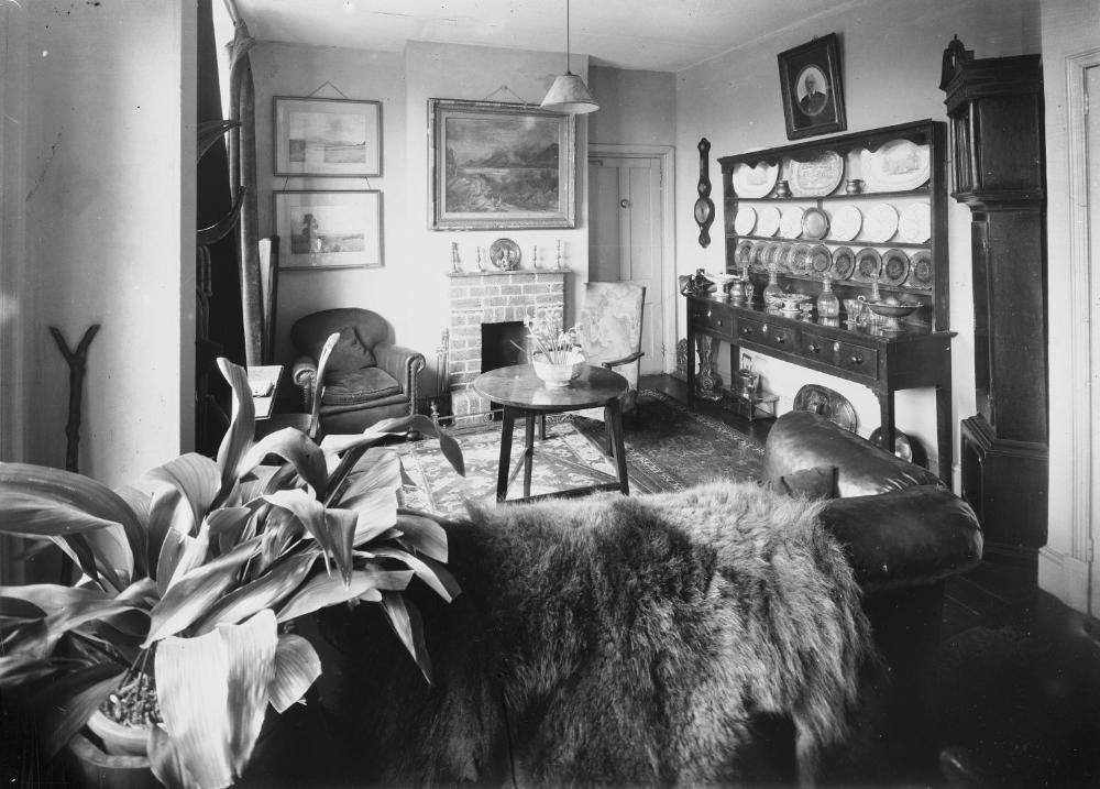 Abstract: Image of Welsh dresser.